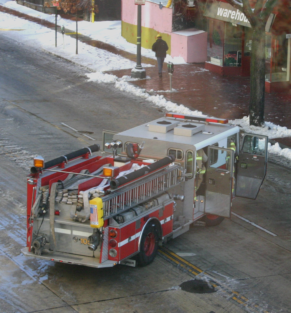 Picture of a District of Columbia Fire and EMS engine along 7th St. NW between Mt. Vernon Place and L St.